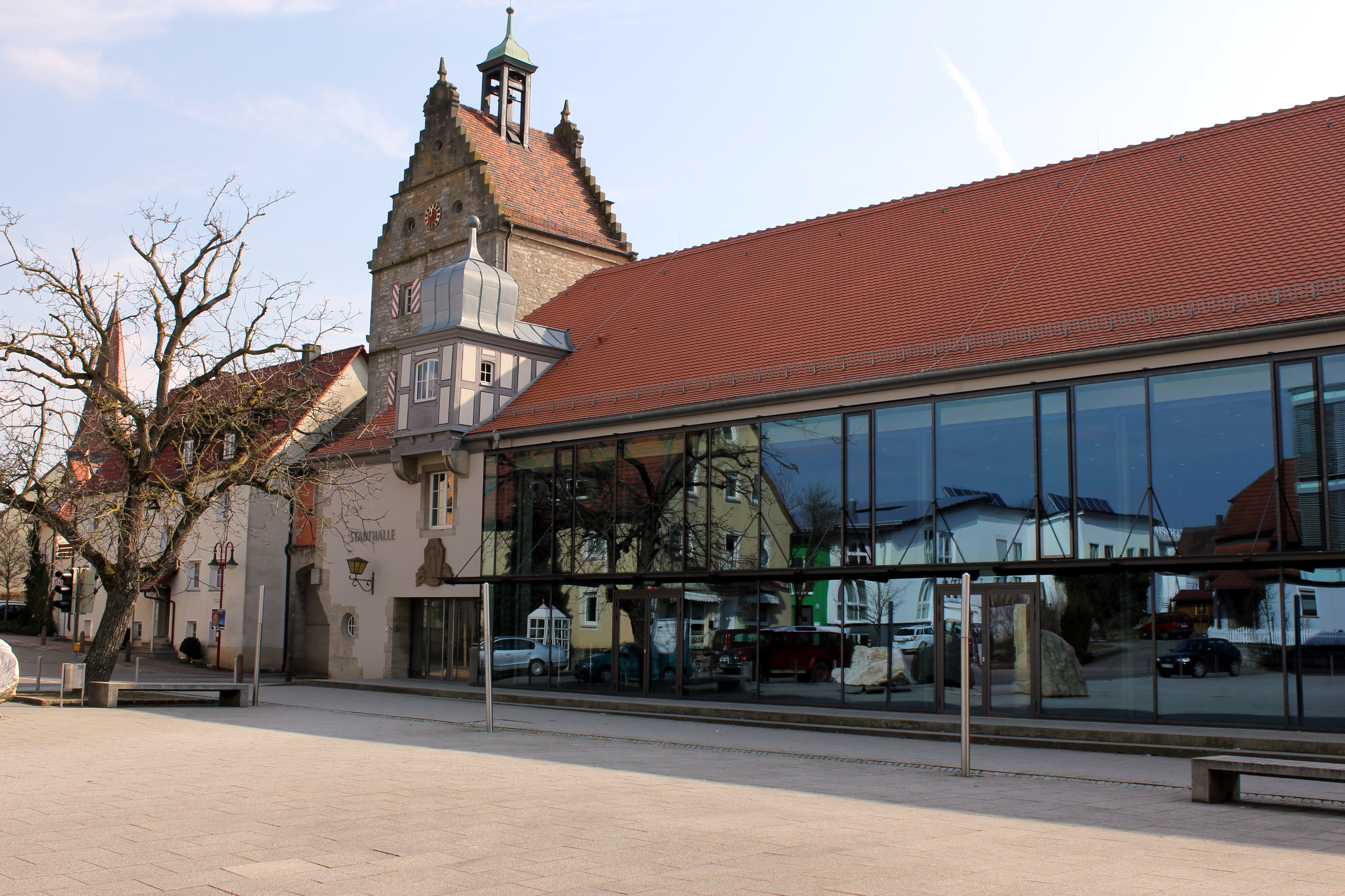 city hall, built until 2007, near Haller tower